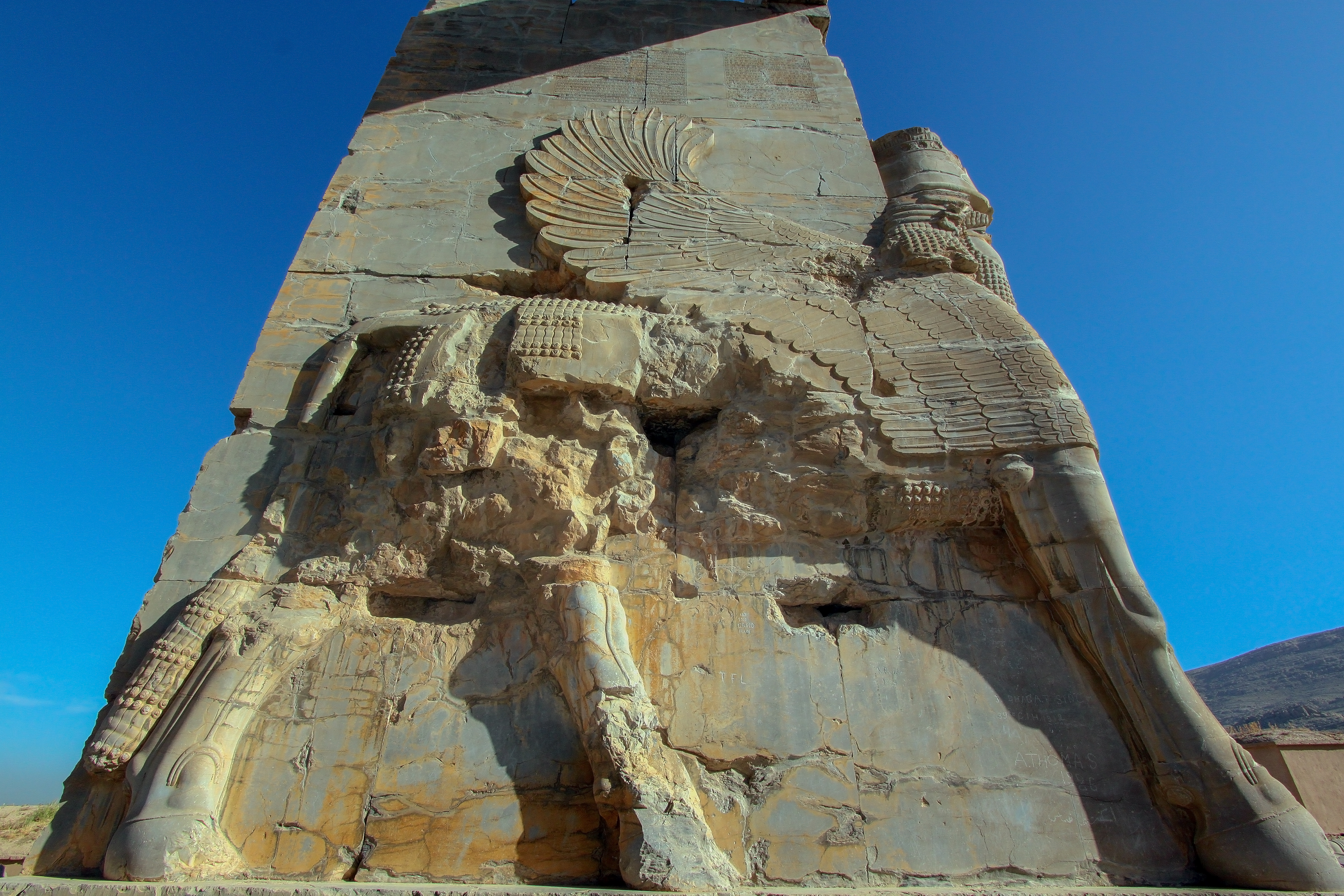 Persepolis was the ceremonial capital of the Achaemenid Empire (ca. 550–330 BC). It is situated 60 km northeast of the city of Shiraz in Fars Province, Iran.